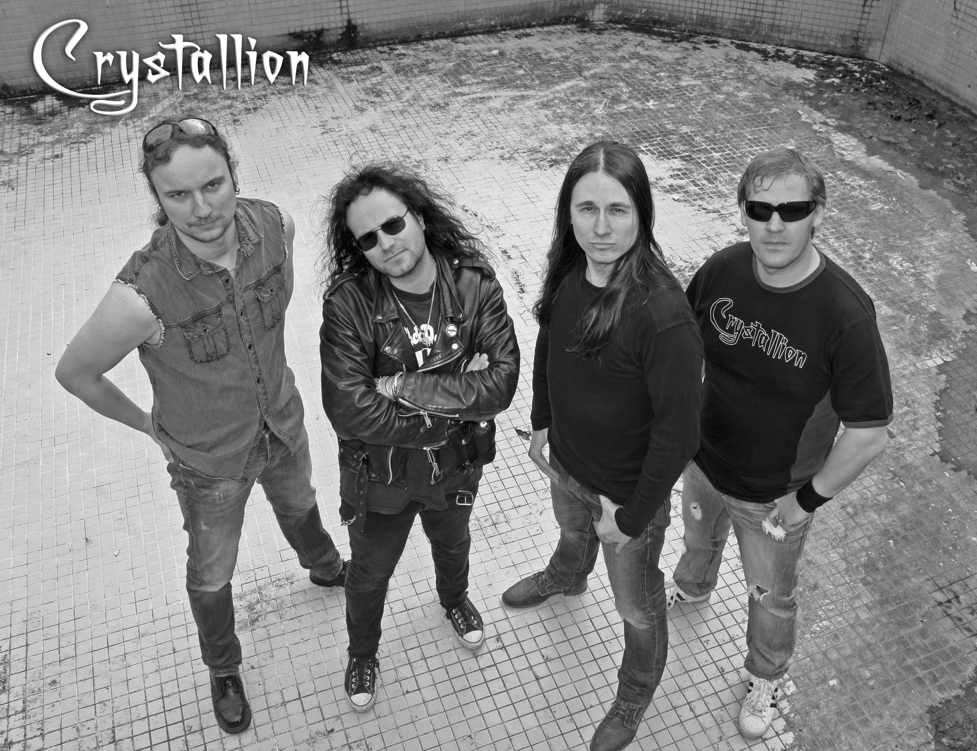 Crystallion 2017